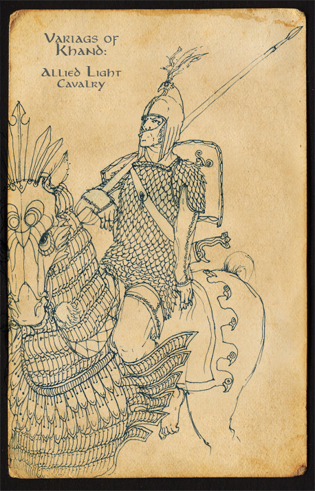 A Variag cavalry from Khand (Terre du Milieu).